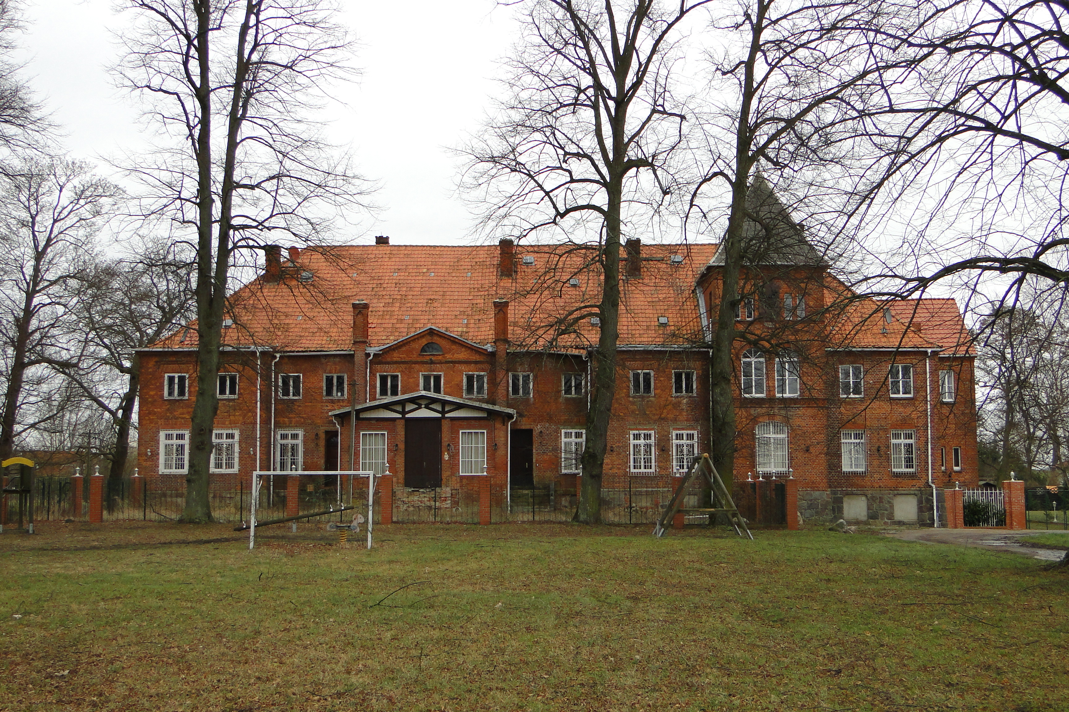 Manor house in Hindenberg, district Nordwestmecklenburg, Mecklenburg-Vorpommern, Germany